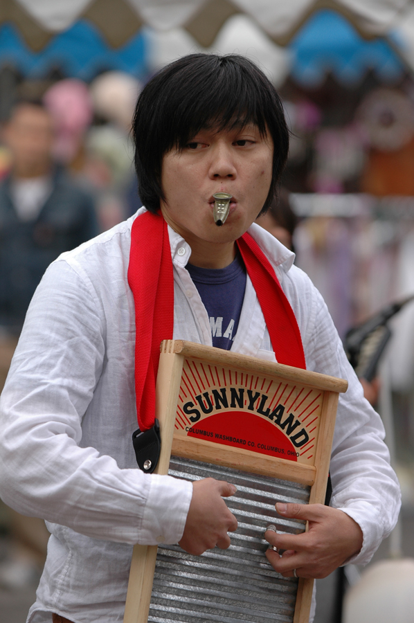 Washboard musician